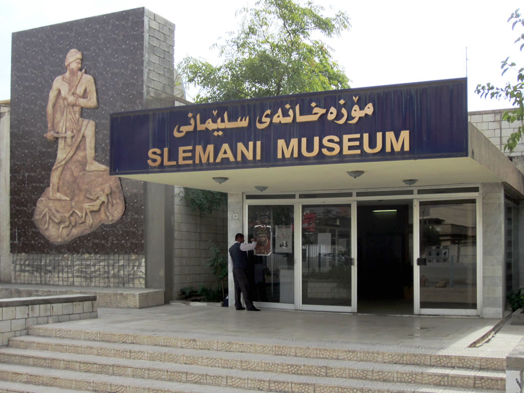 Entrance to Sulaymaniyah Museum